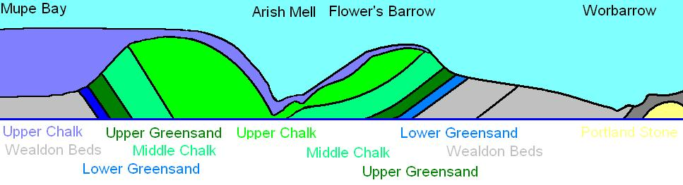 Geology of the coast line by Flower's Barrow and Arish Mell